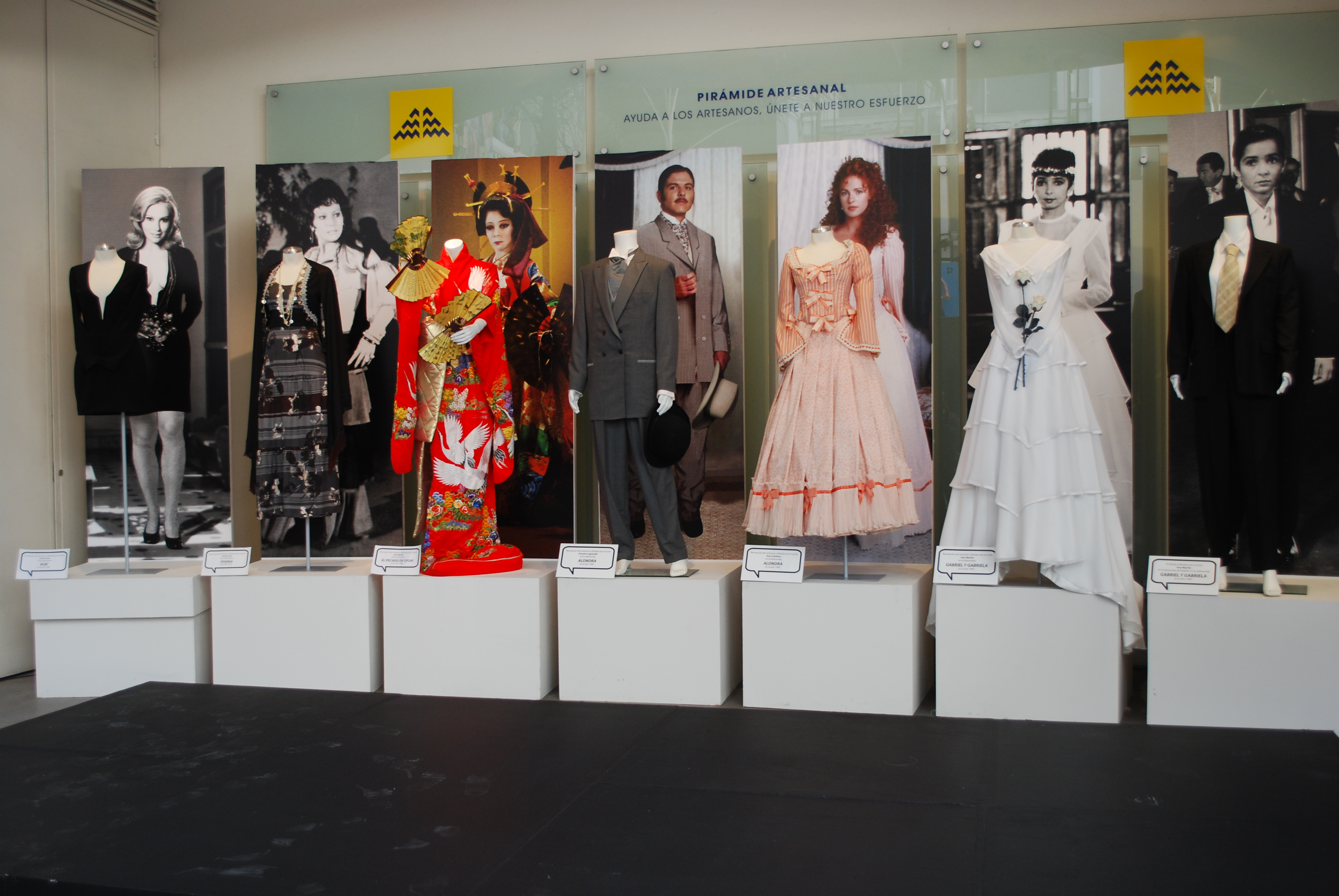 Costumes and posters of Vargas Dulché's characters as interpreted on telenovelas at the homage to Yolanda Vargas Duché at the Museo de Arte Popular in Mexico City